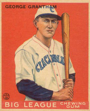 1933 Goudey baseball card of George Grantham of the Cincinnati Reds card number 66. PD-not-renewed.